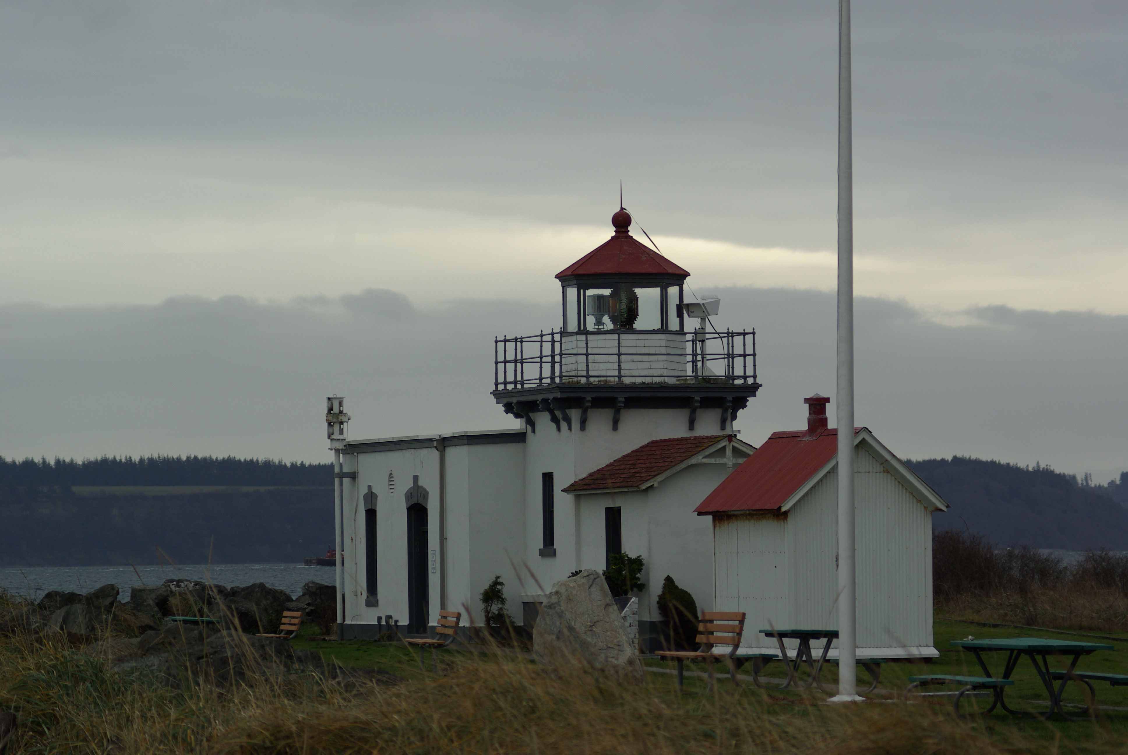 The lighthouse at Point No Point on the Kitsap Peninsula in Washington State, USA